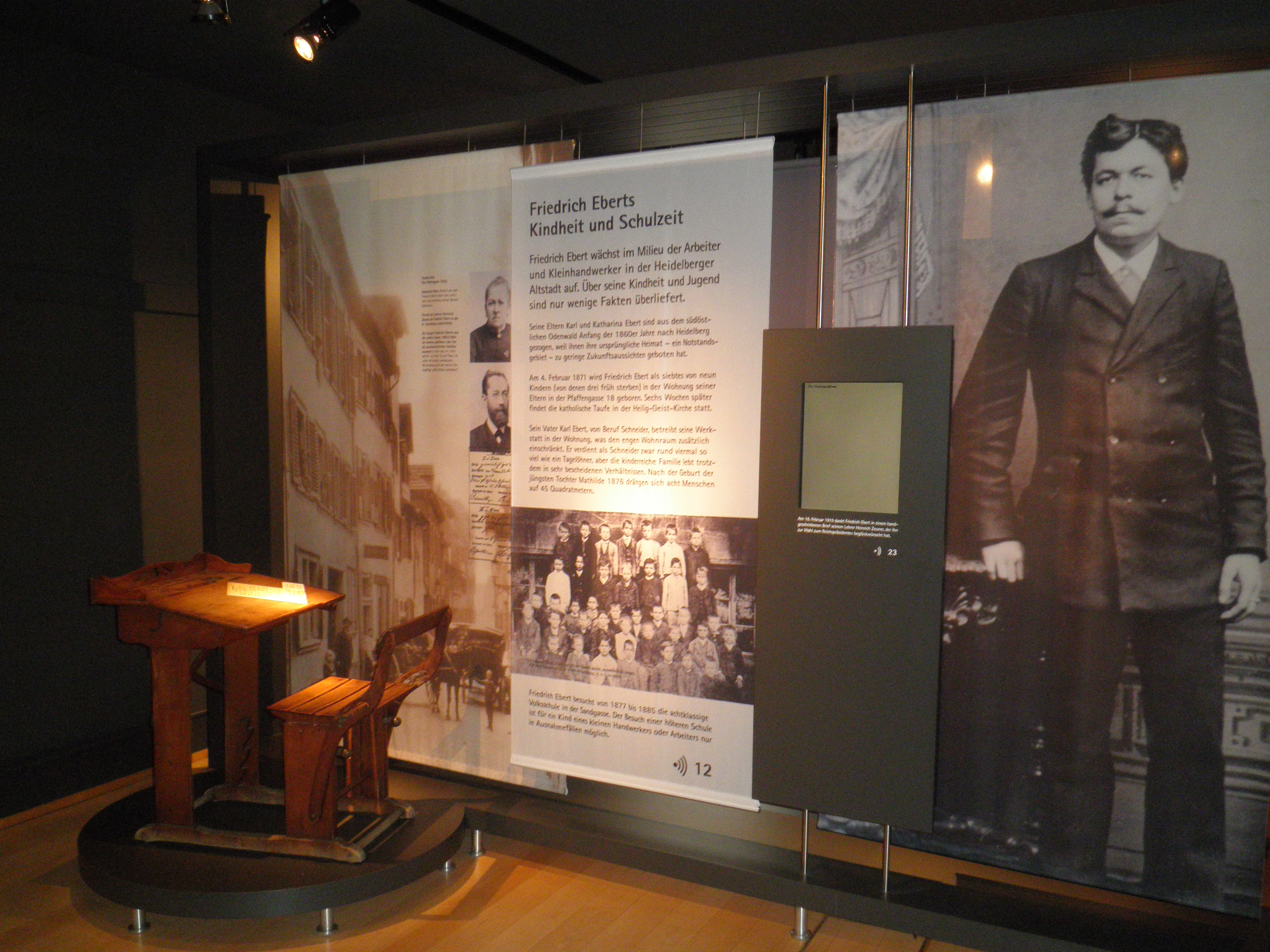 President-Friedrich-Ebert-Memorial: view in the exhibition (room 1)